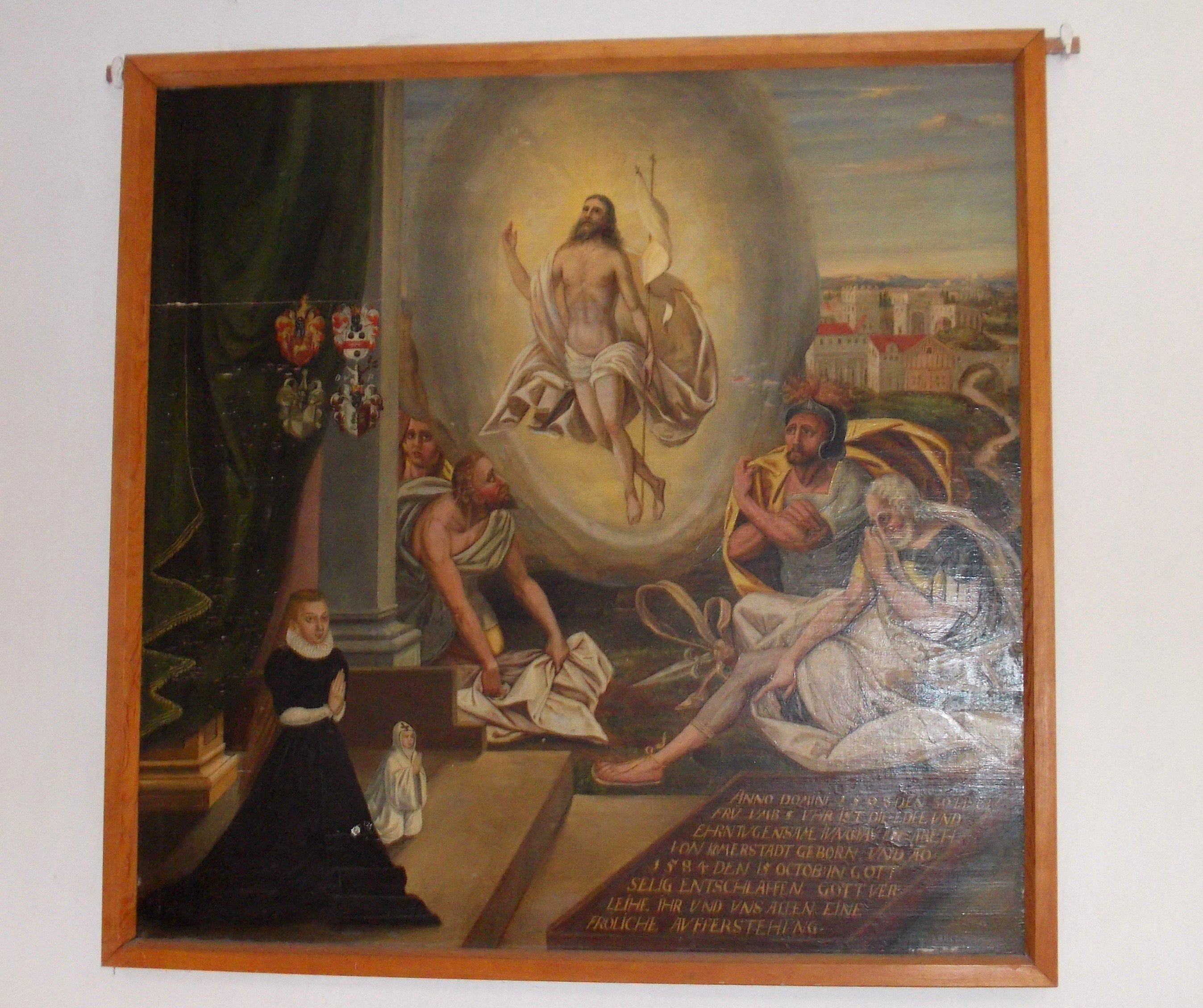 St. Urban's Church in Wantewitz (Priestewitz, Meissen district, Saxony)